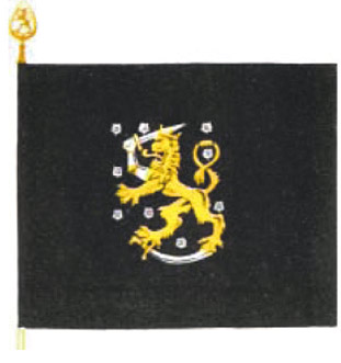 The Colours of Engineer Regiment, Finnish Army